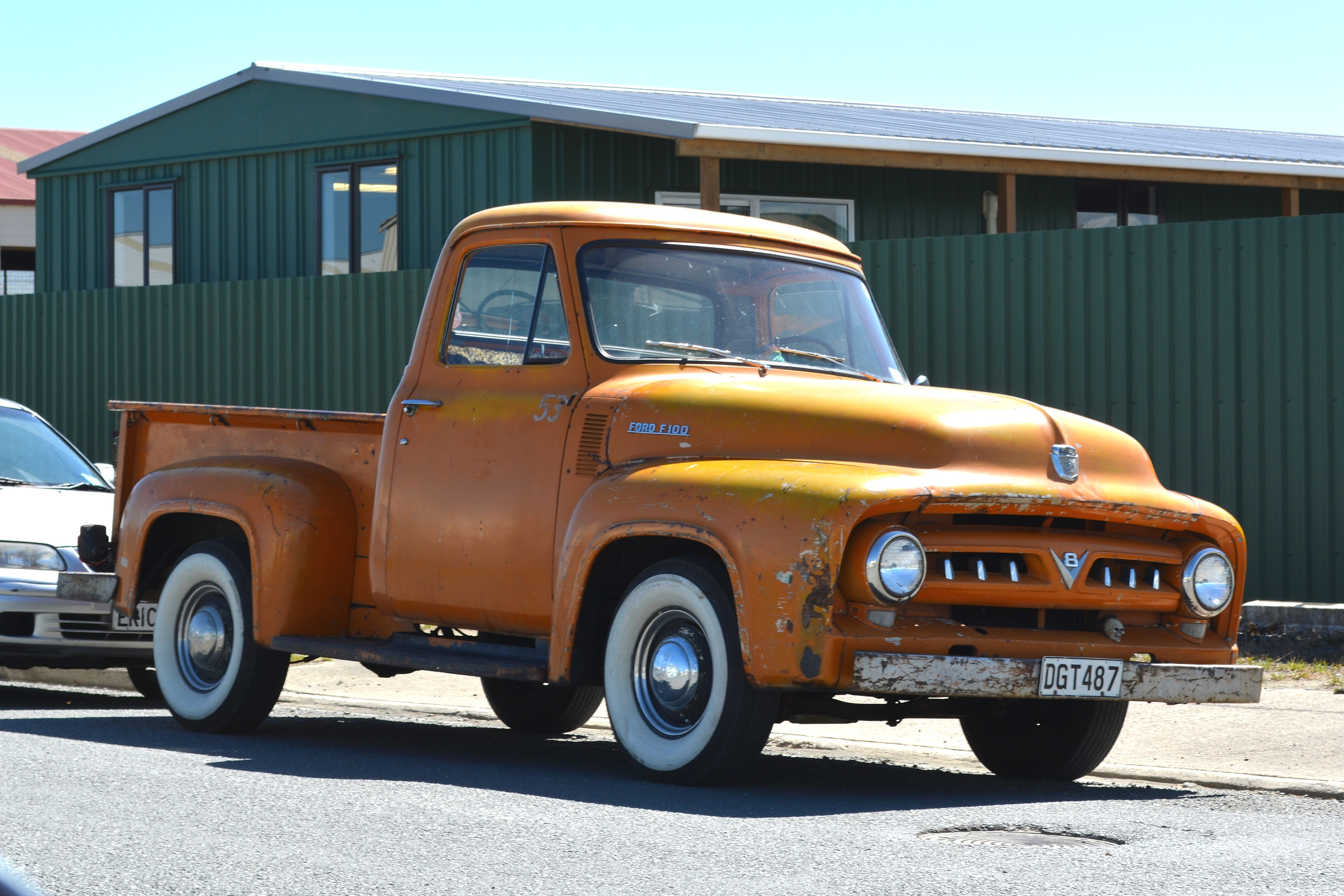 New Zealand